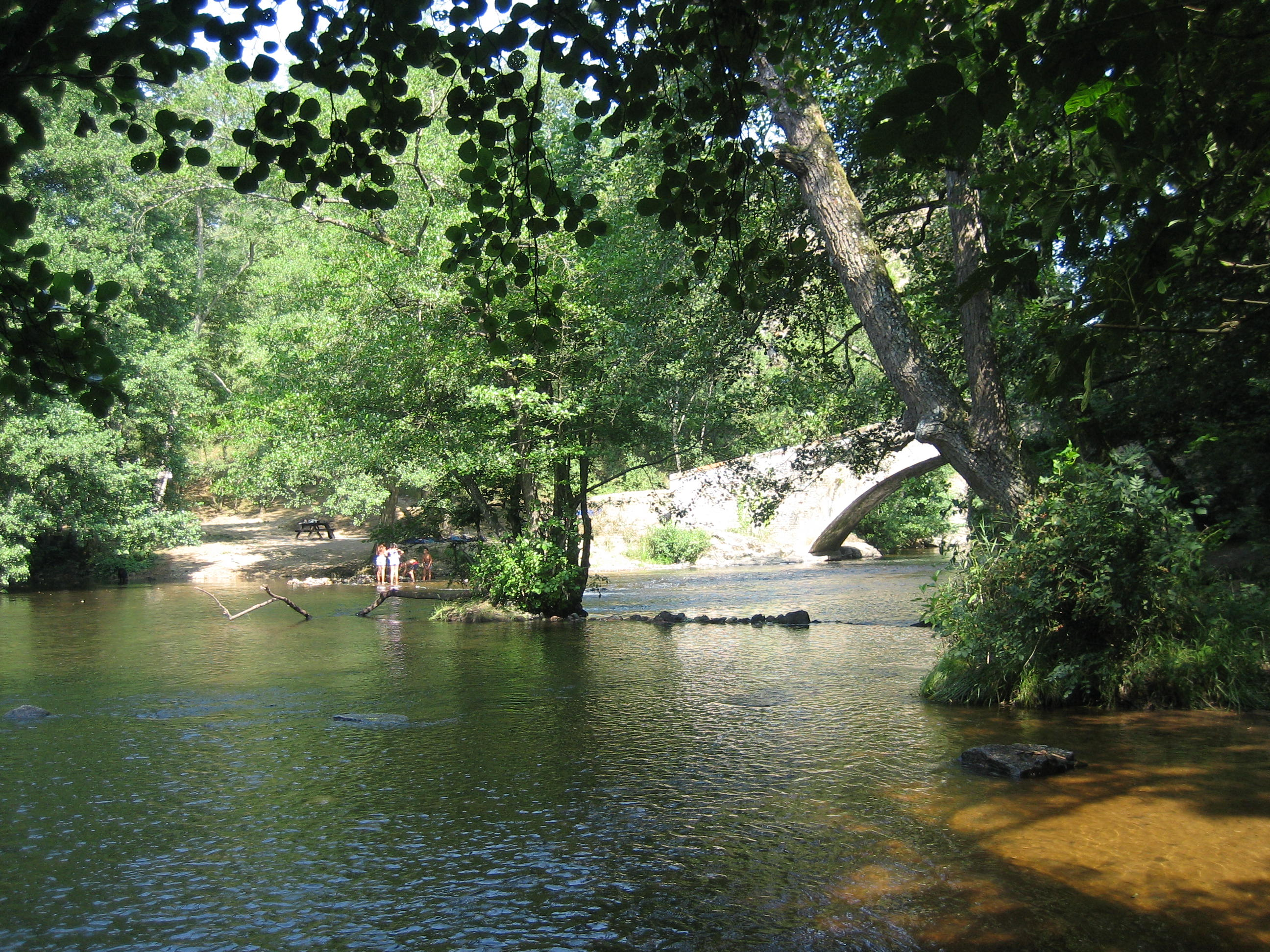 River Cure, Morvan, Pierre-Perthuis